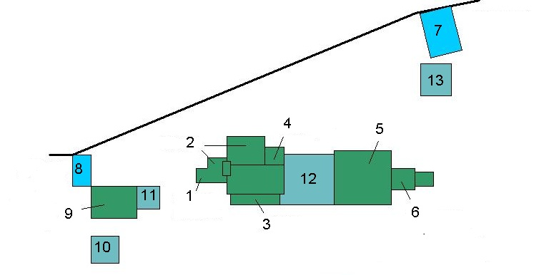 Plan of Bibi Heybat mosque until destruction